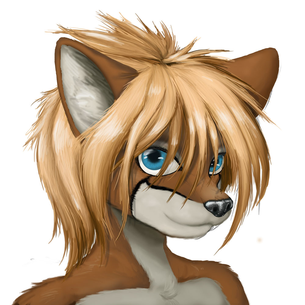 a colored drawing of an anthro vixen